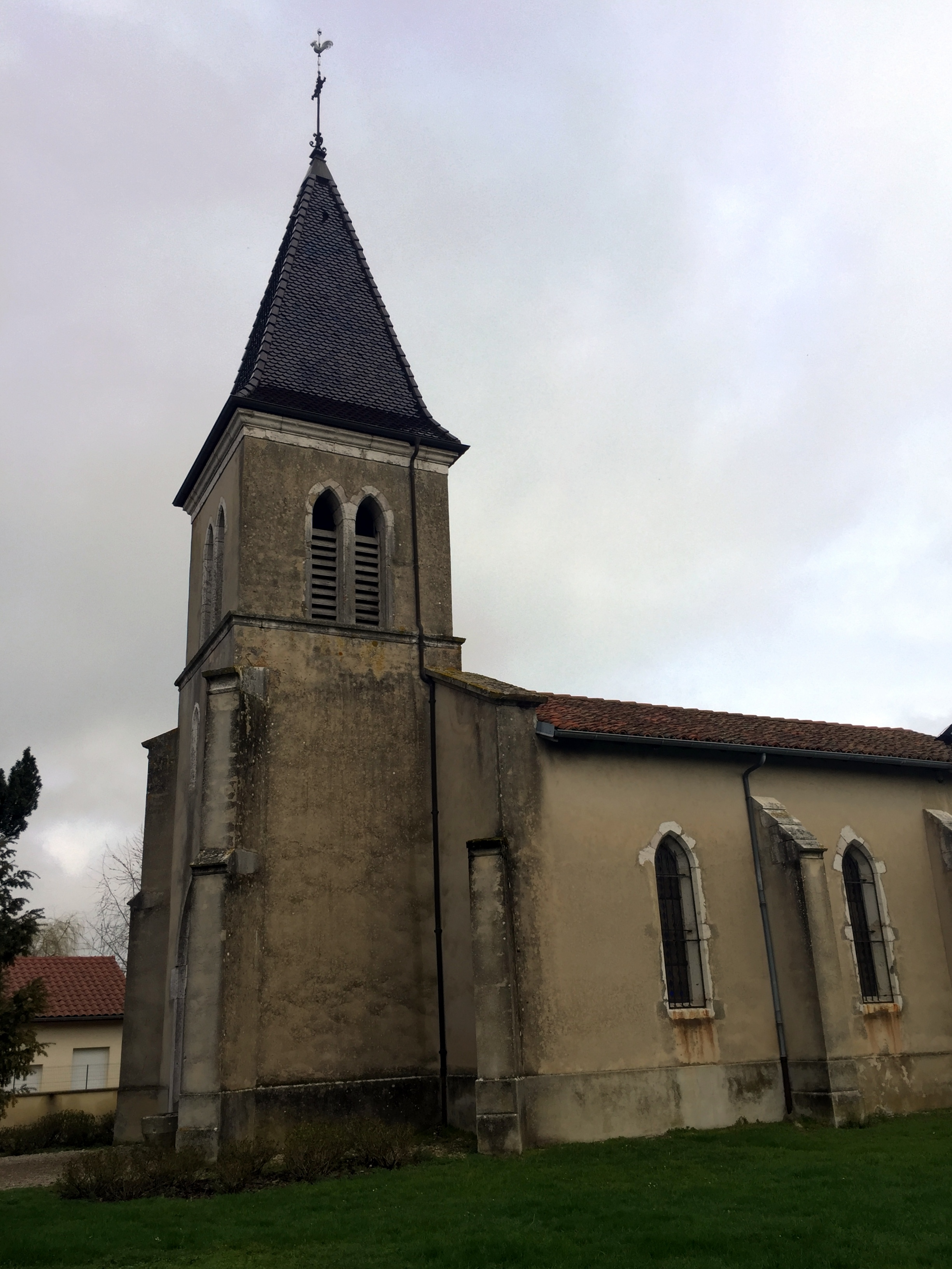 This photograph was taken with an iPhone 6